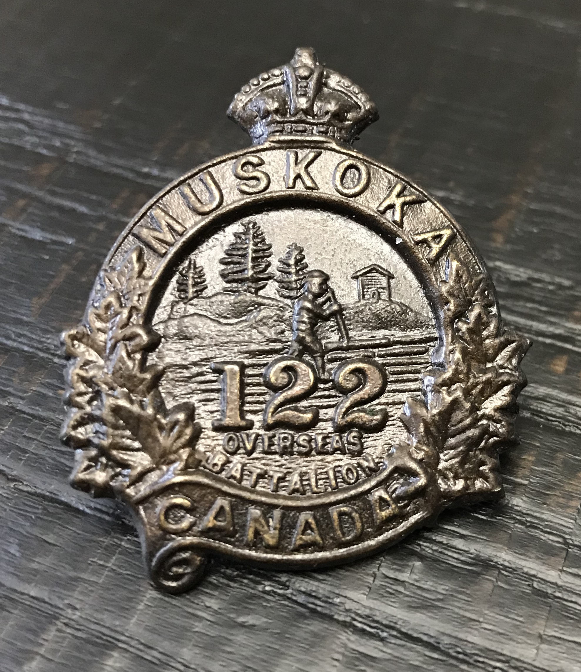 Type D cap badge 122 CEF